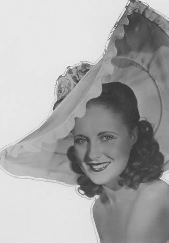 Diana Montes-actriz